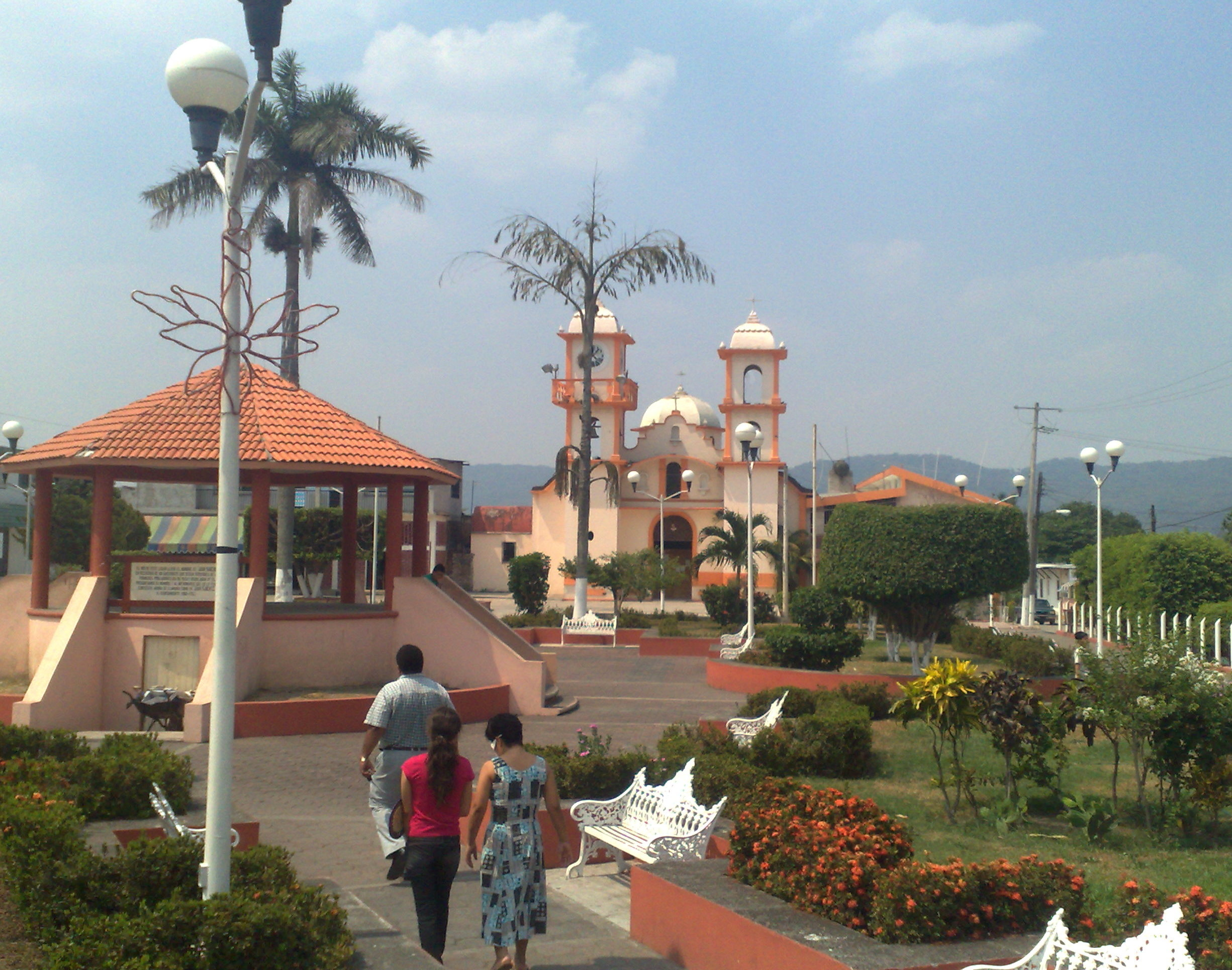 Centenario park located in Acatlán de Pérez Figueroa, Oaxaca, Mexico.